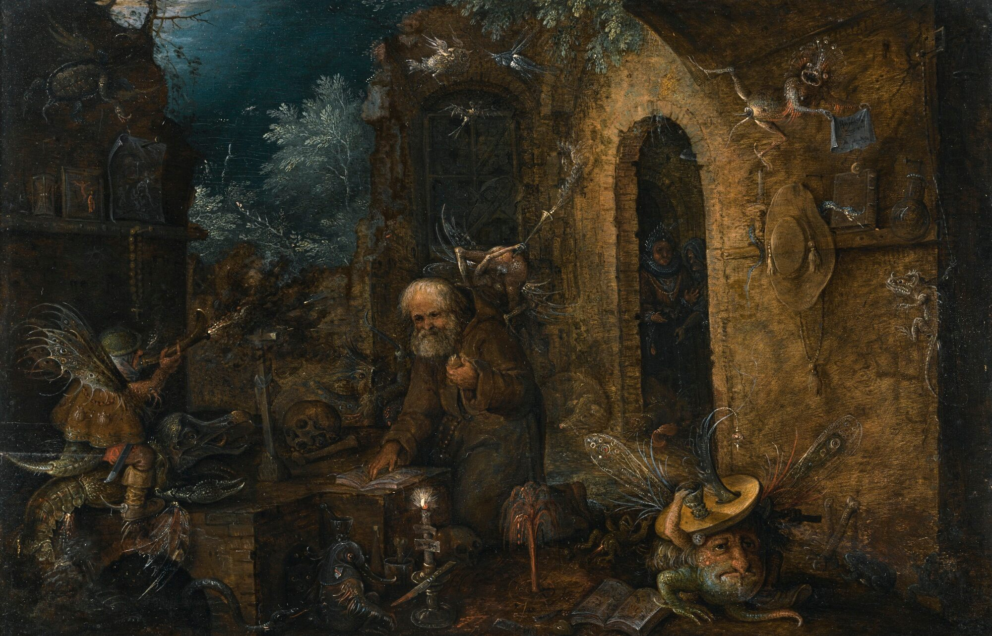 The Temptation of Saint Anthony, featuring a dodo/lobster hybrid. This is perhaps the earliest depiction of a dodo by Roelandt Savery, and was only identified in the literature in 2018.[1]